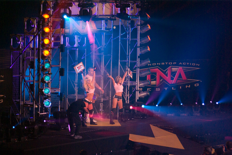 Tag team The Beautiful People (Angelina Love (left) and velvet Sky (right)), with Cute Kip behind them, at the TNA PPV "Bound to Glory IV"